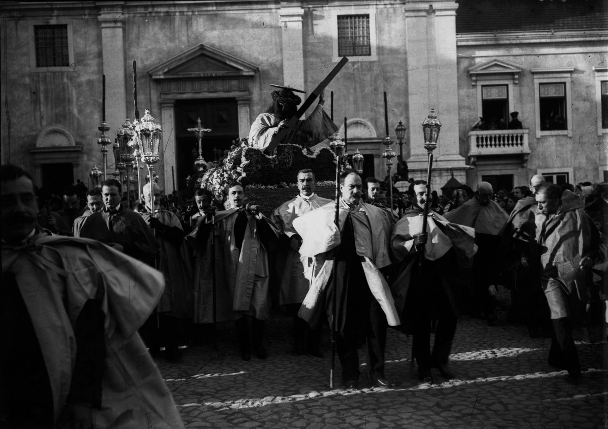 Photograph of an early 20th-century Procession of Our Lord of the Stations of the Cross (Procissão do Senhor dos Passos), headed towards the Church of Graça, in Lisbon, Portugal.